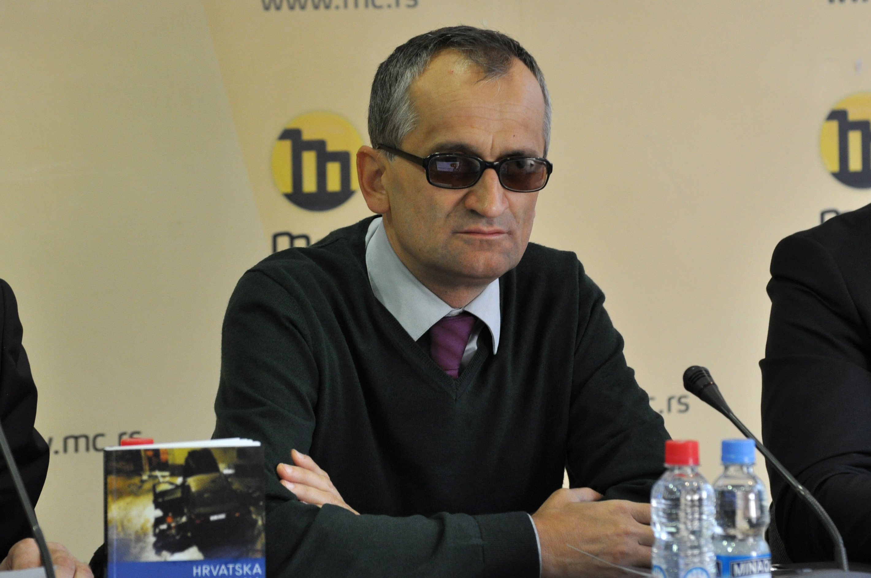 Dževad Galijašević, „Hrvatska kriminalna hobotnica“, 26/10/2012